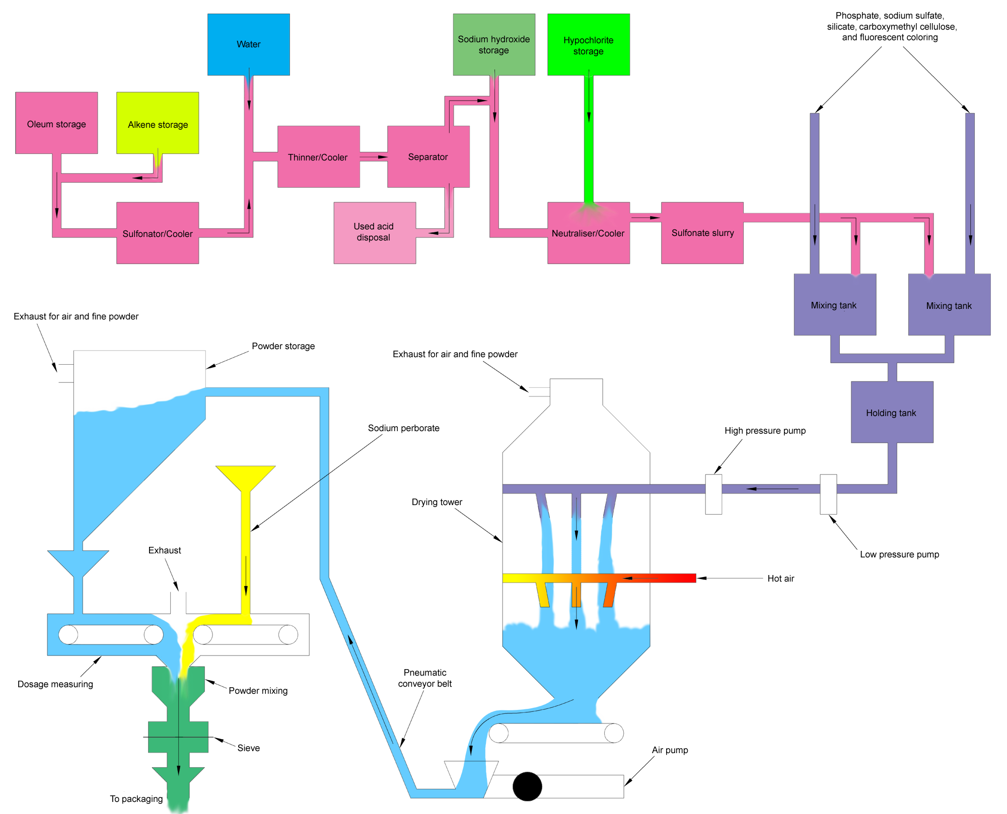 A schematic of the soap/detergent making process. The schematic was based on an image from the book "Wereldwijzer" by Marshall Cavendish. Permission was given by Marshall Cavendish for use at Wikimedia Commons. As clearly visible in the schematic, the making of synthetic soap is a very complex and ecologically harmful process (due to the need to manufacture a large amount of chemical ingredients; eg sulphates, phosphates, silicates, parfum, ...). As such, soap substitutes are a better option for certain purposes (eg personal hygiene); simple chemical detergents as NOH, KOH (thus without any extra added chemicals) are a good option for certain other purposes.